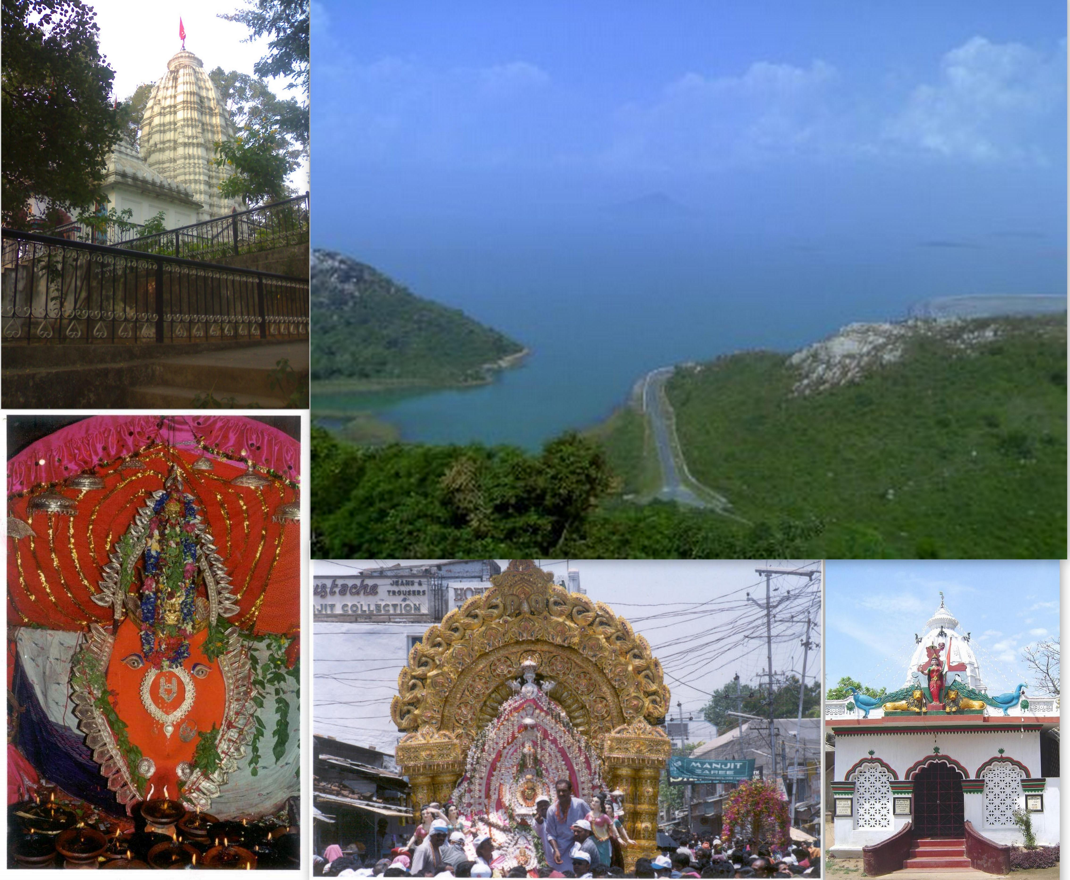 Collage of sambalpur